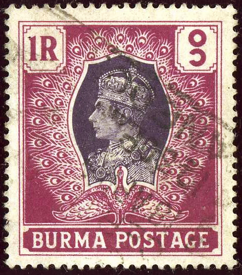 1 Rupee Burma Postage, issue 1946, used. Peacock, George VI. Michel N°63.